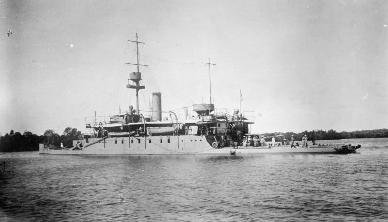 HMS SEVERN in bombarding position in Arab House Creek in the Rufigi River Delta, German East Africa, 3 July 1917. Port wings flooded to get extra elevation for its 6 inch guns. The after 6 inch gun is being loaded to bombard the railway loop trenches.